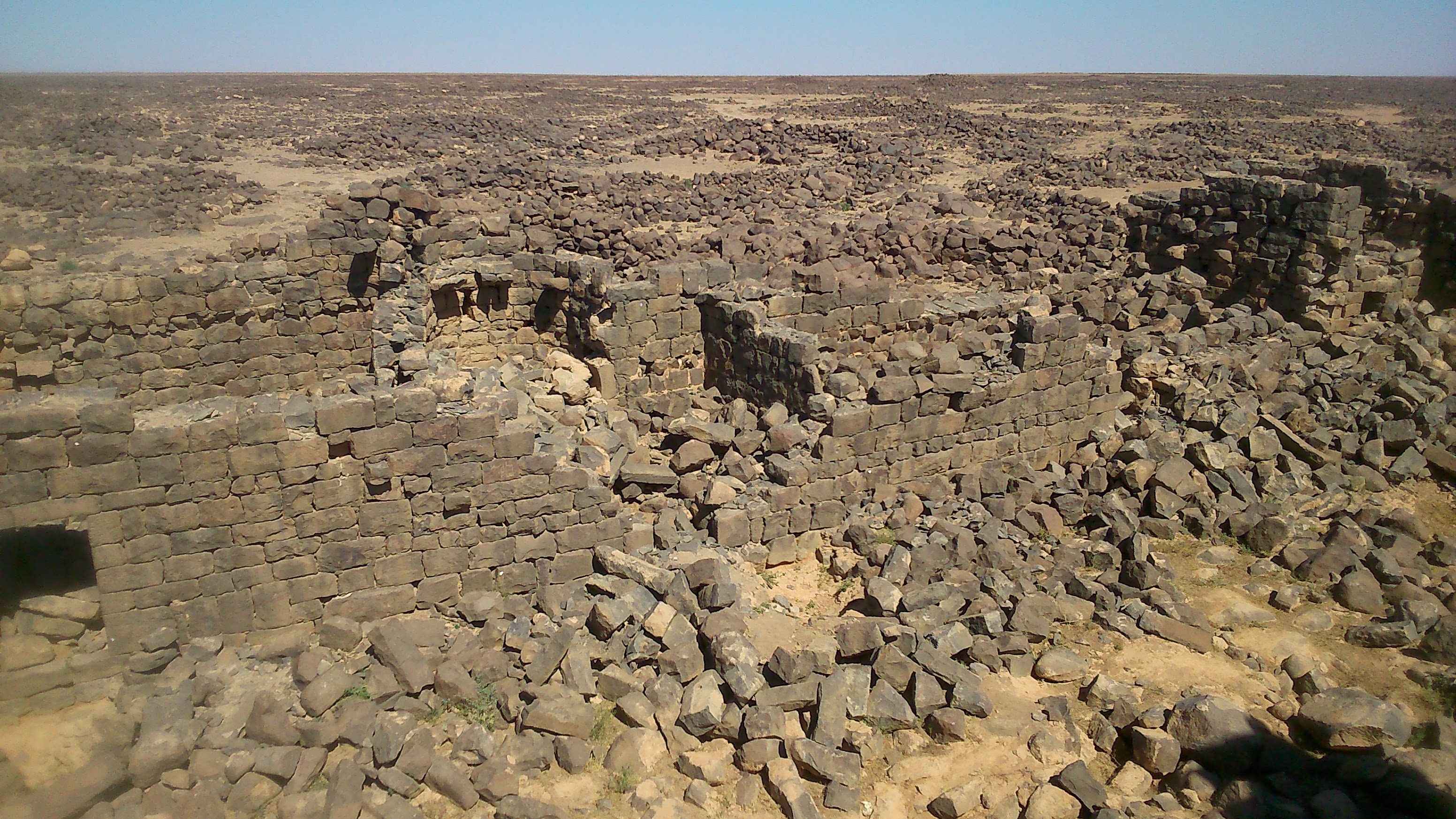 The walls of Qasr Burqu in eastern Jordan